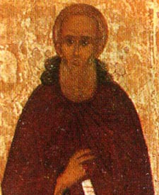 Photograph of Russian icon (clip)